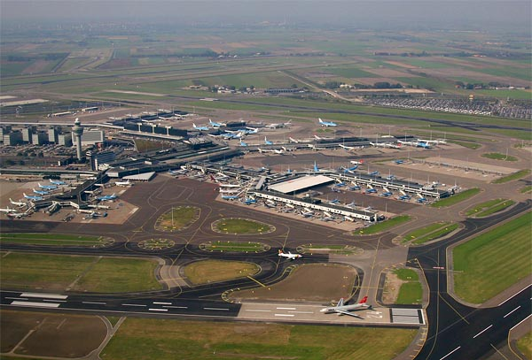 Amsterdam Schiphol airport from above. See bigger size